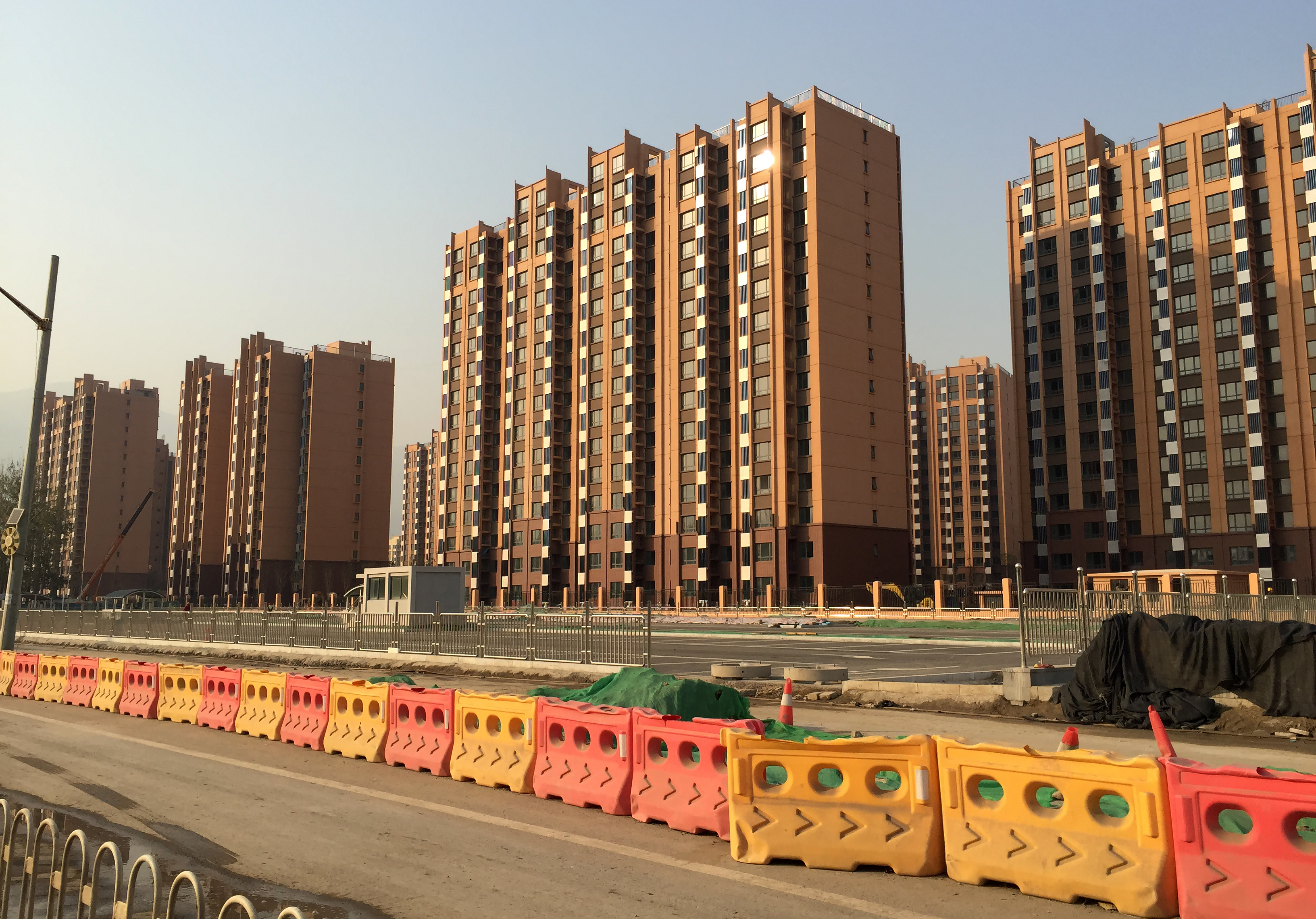 Probably P+R.